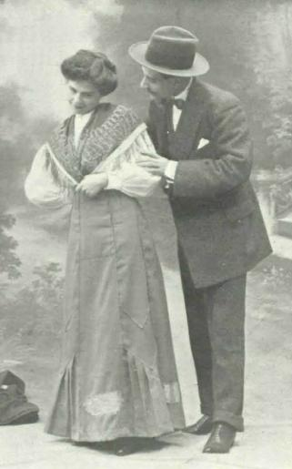 Catalina Bárcena y Alfonso Muñoz en una escena de la obra de teatro Flor de los pazos, de Manuel Linares Rivas